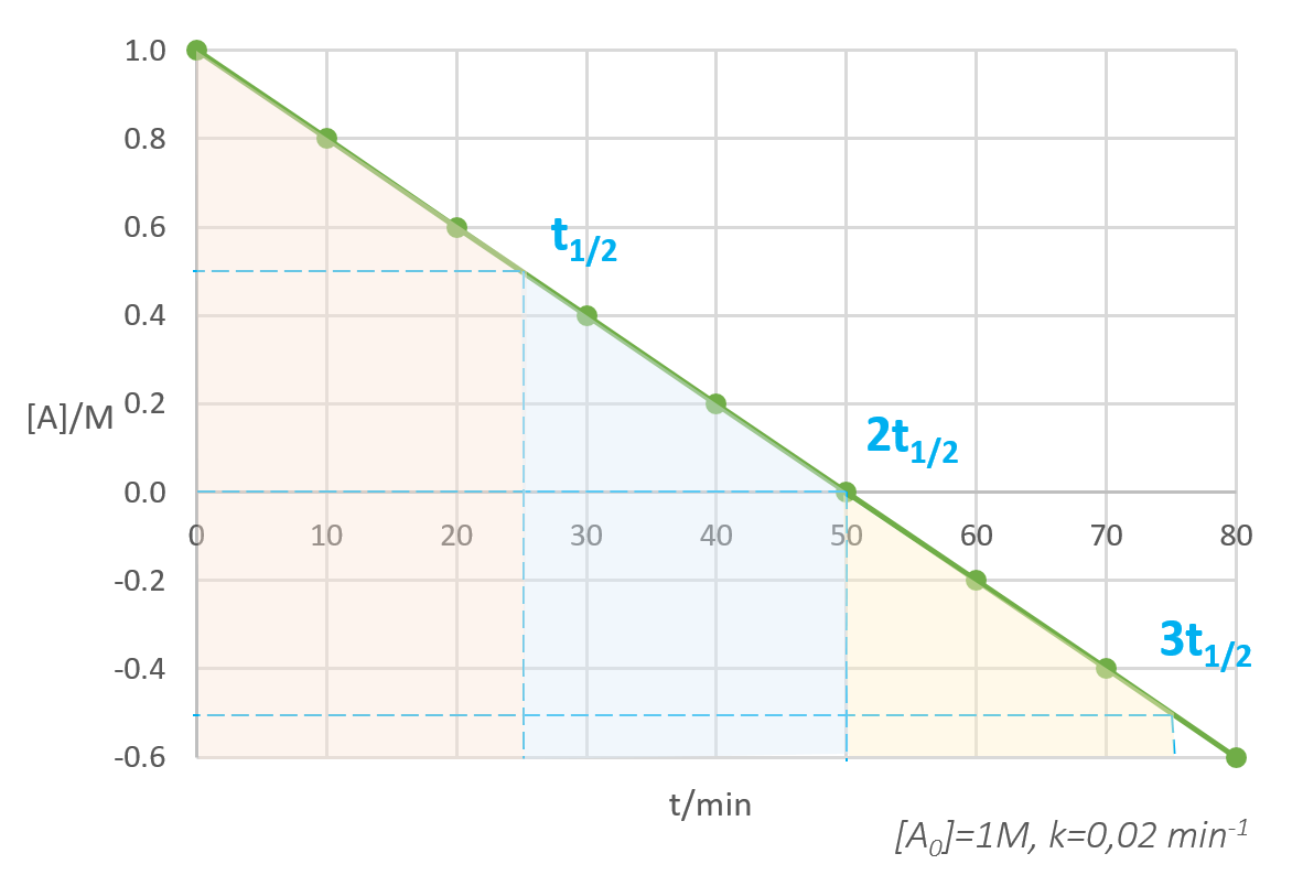 Half-life of second order reaction.